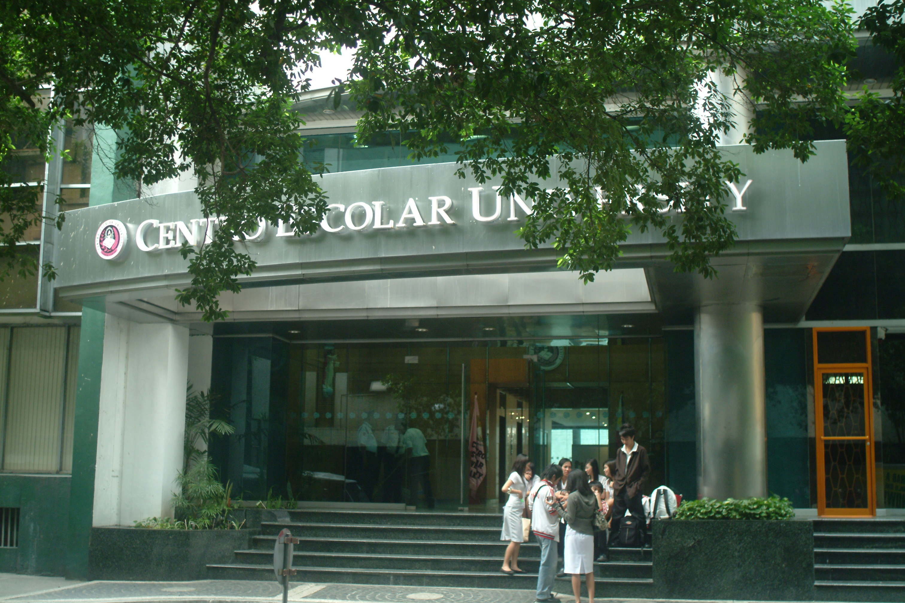 Front entrance of Centro Escolar Makati Legaspi Village Building Esteban Street.